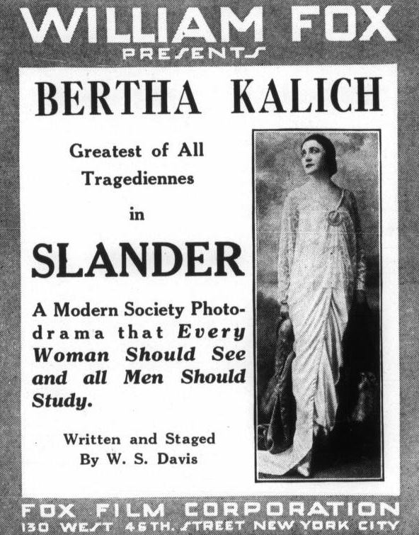 Advertisement for the American drama film Slander (1916) with Bertha Kalich, on page 21 of the April 7, 1916 Variety.